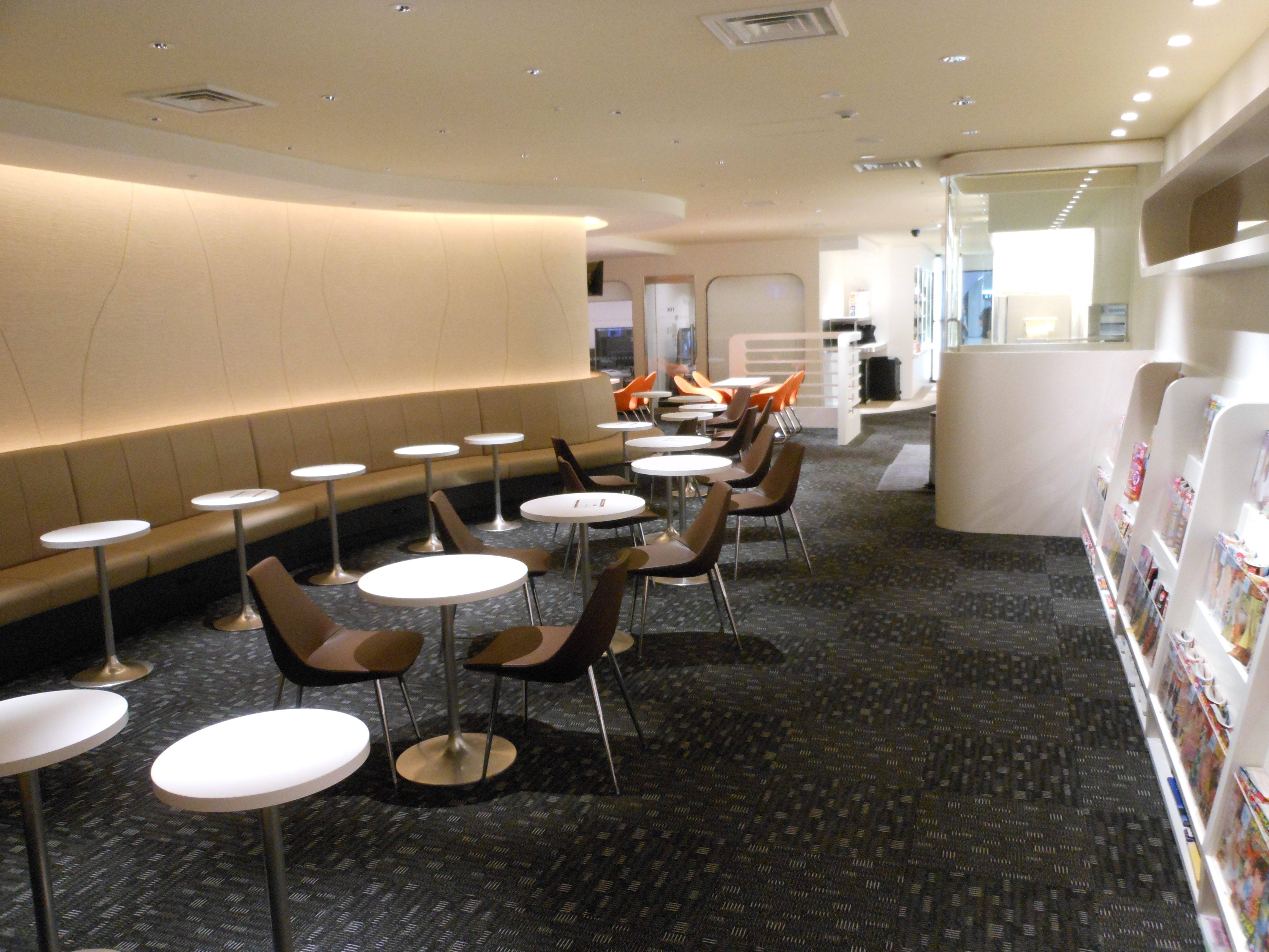 KIX AIRPORT LOUNGE, Izumisano-City Osaka Japan.